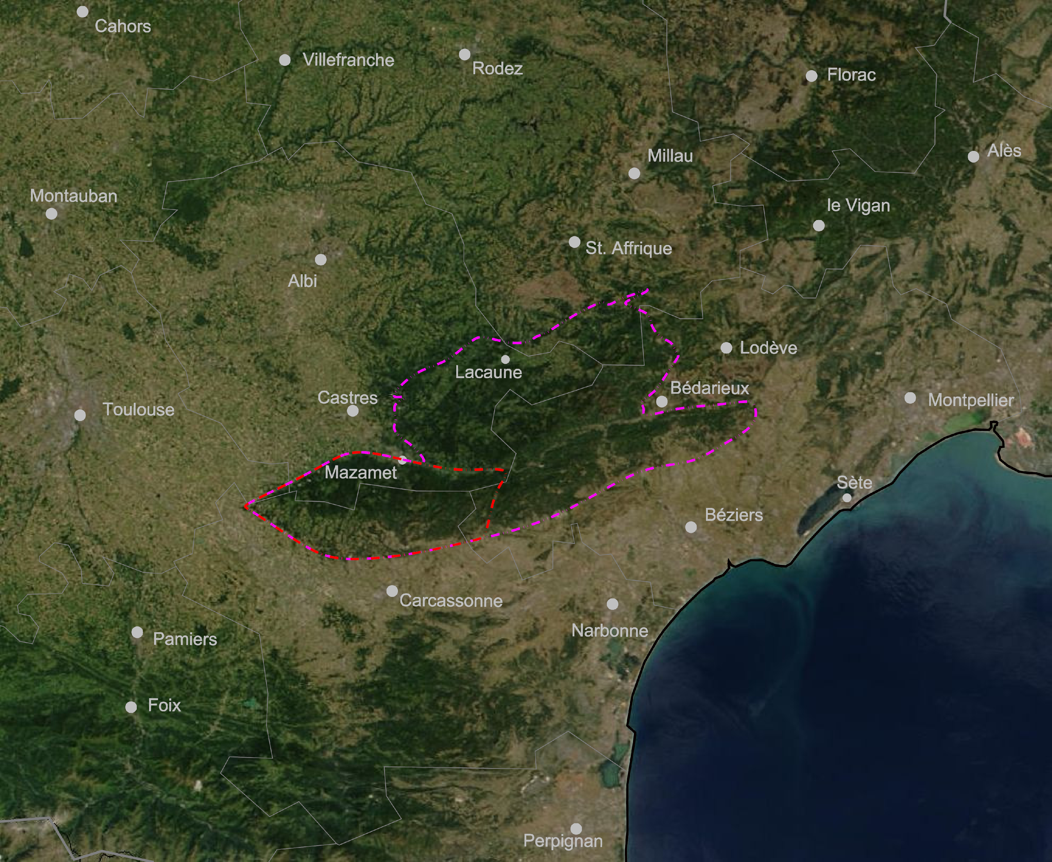 Outline of the Montagne Noire. Geographic extent in red, geologic extent in cyan. Departements in grey